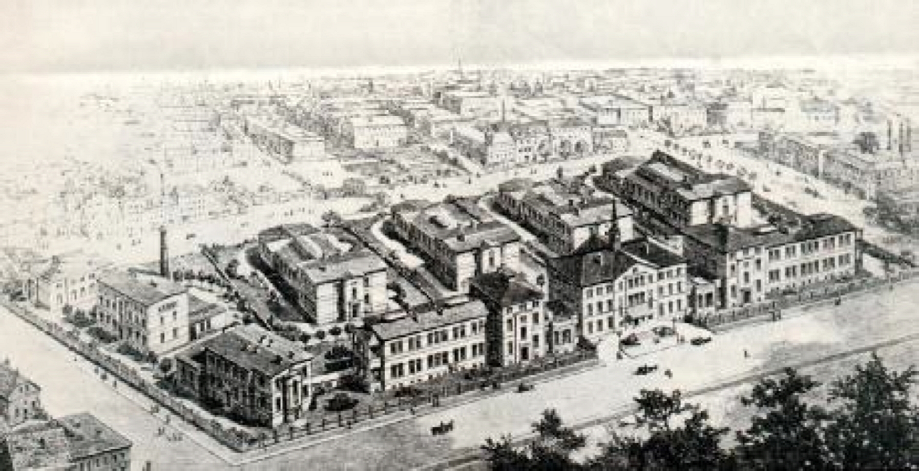 Kaiser- und Kaiserin-Friedrich-Kinderkrankenhaus in Berlin, about 1890